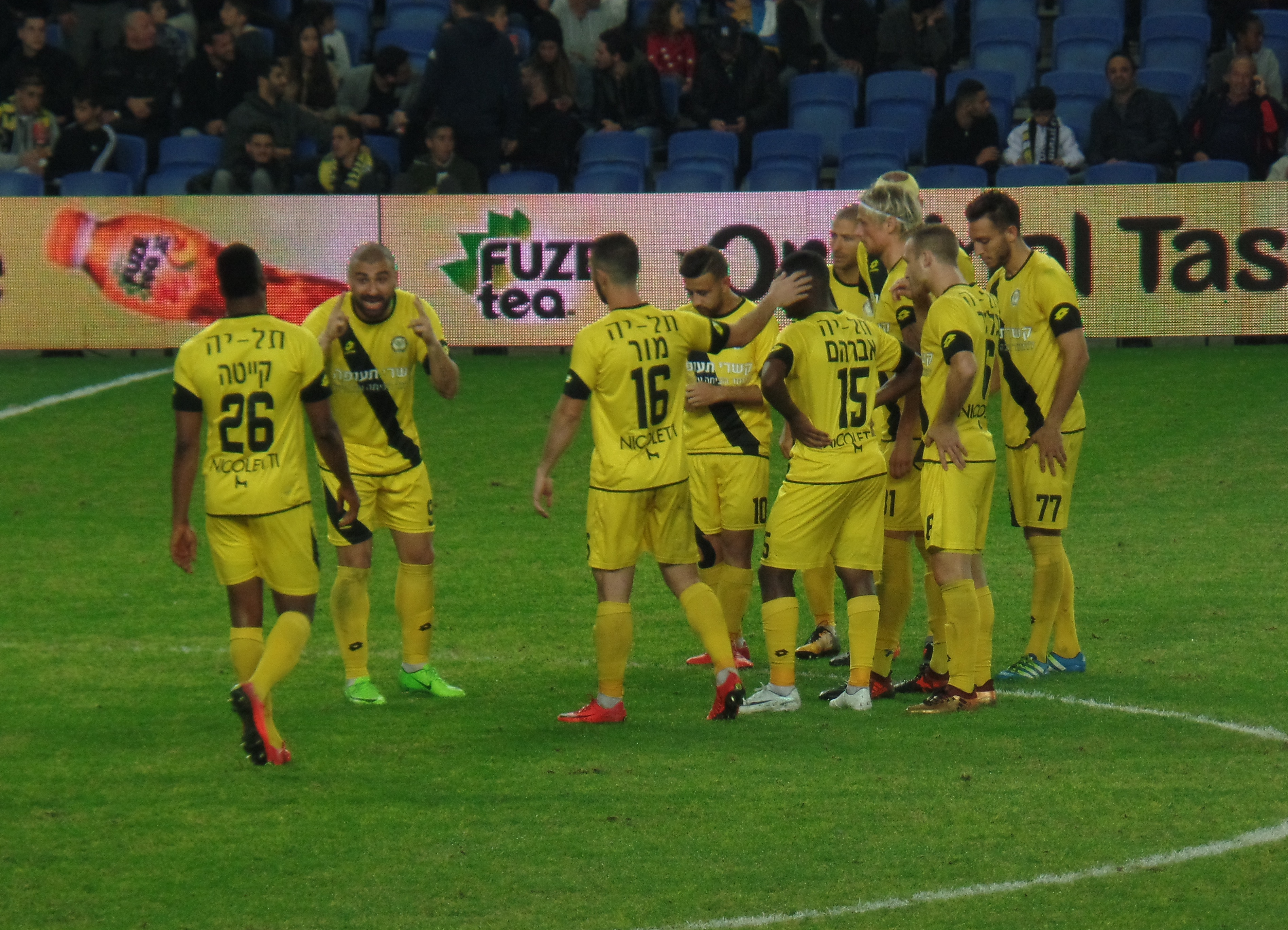 Maccabi Netanya F.C. 2017 SAMSUNG CAMERA PICTURES